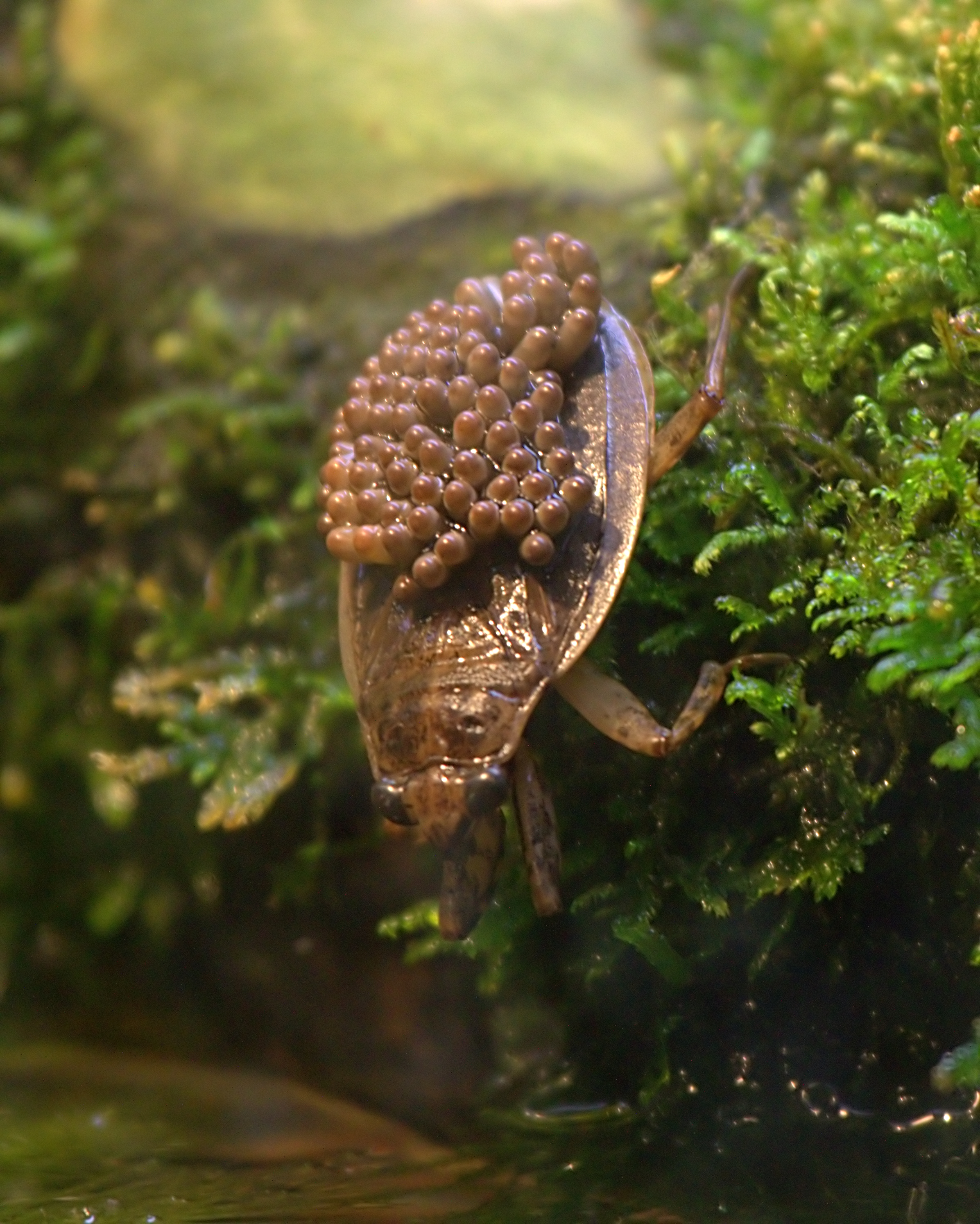 Abedus herberti at the Cincinnati Zoo.